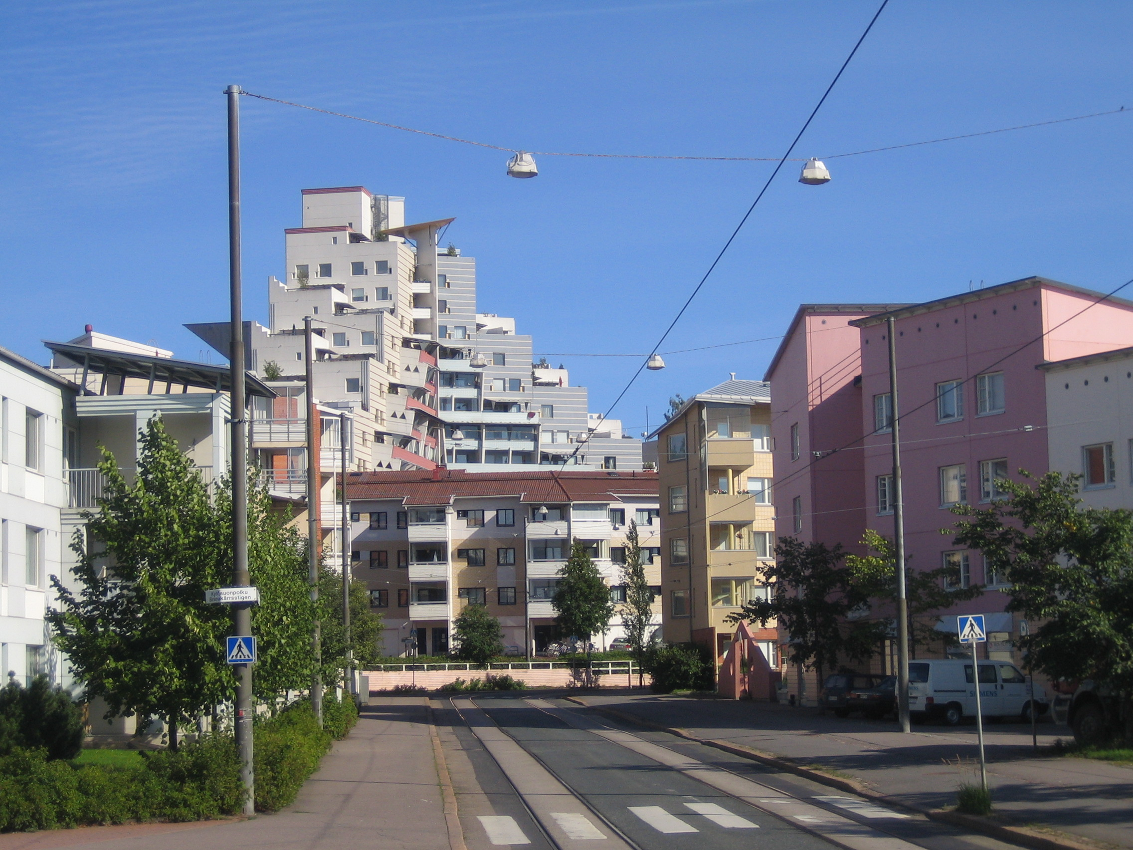 Helsinki, Pikku-Huopalahti district.